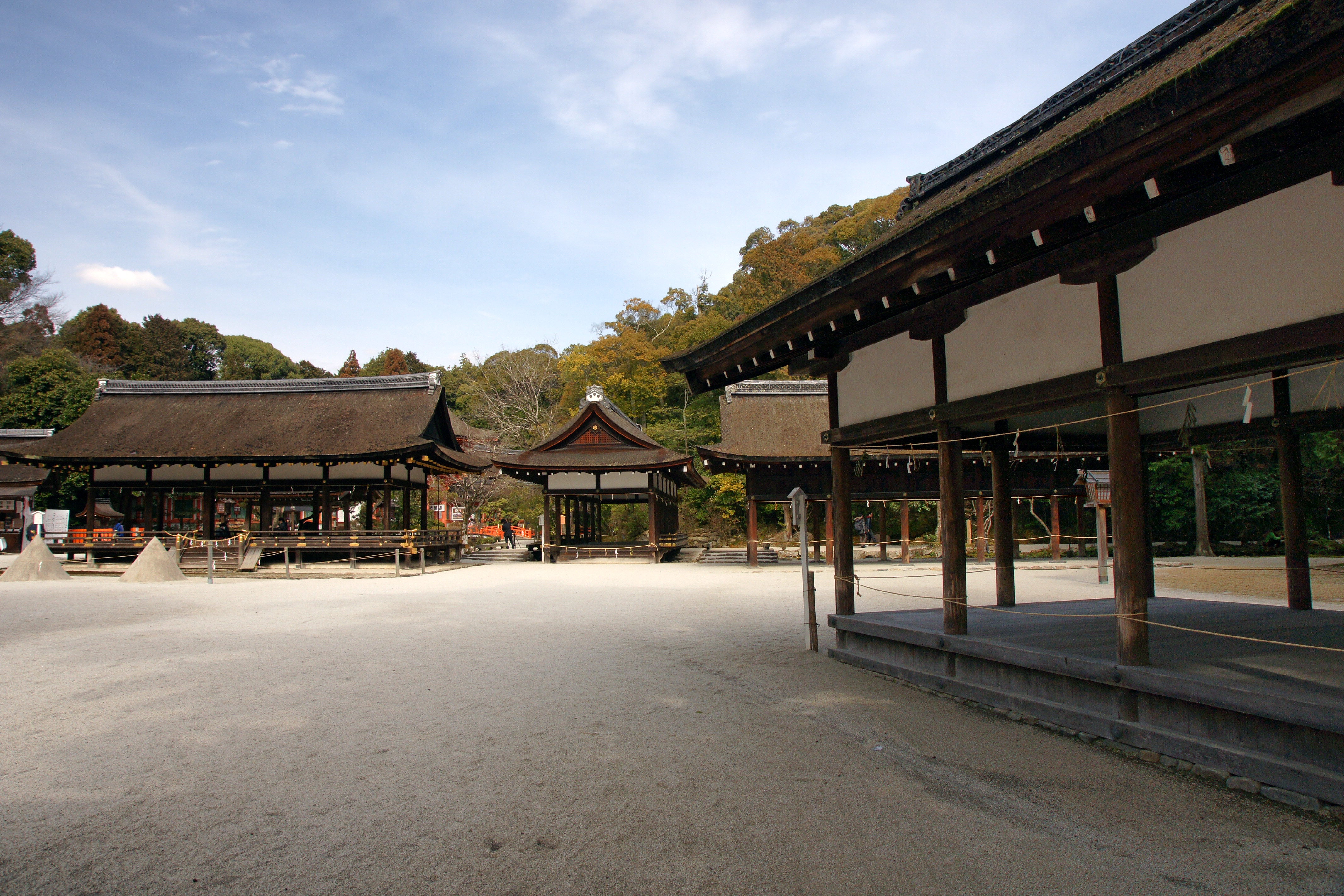 Kamowakeikazuchi-jinja (Kamigamo-jinja) in Kita-ku, Kyoto, Kyoto Prefecture, Japan